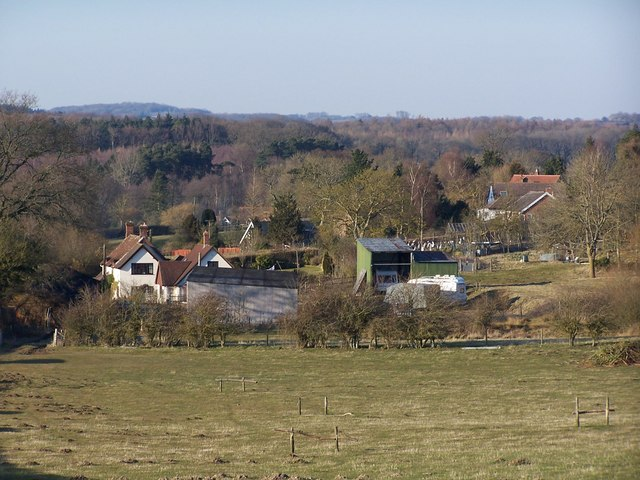 View towards West Grimstead Taken from a field entrance on Windwhistle Lane